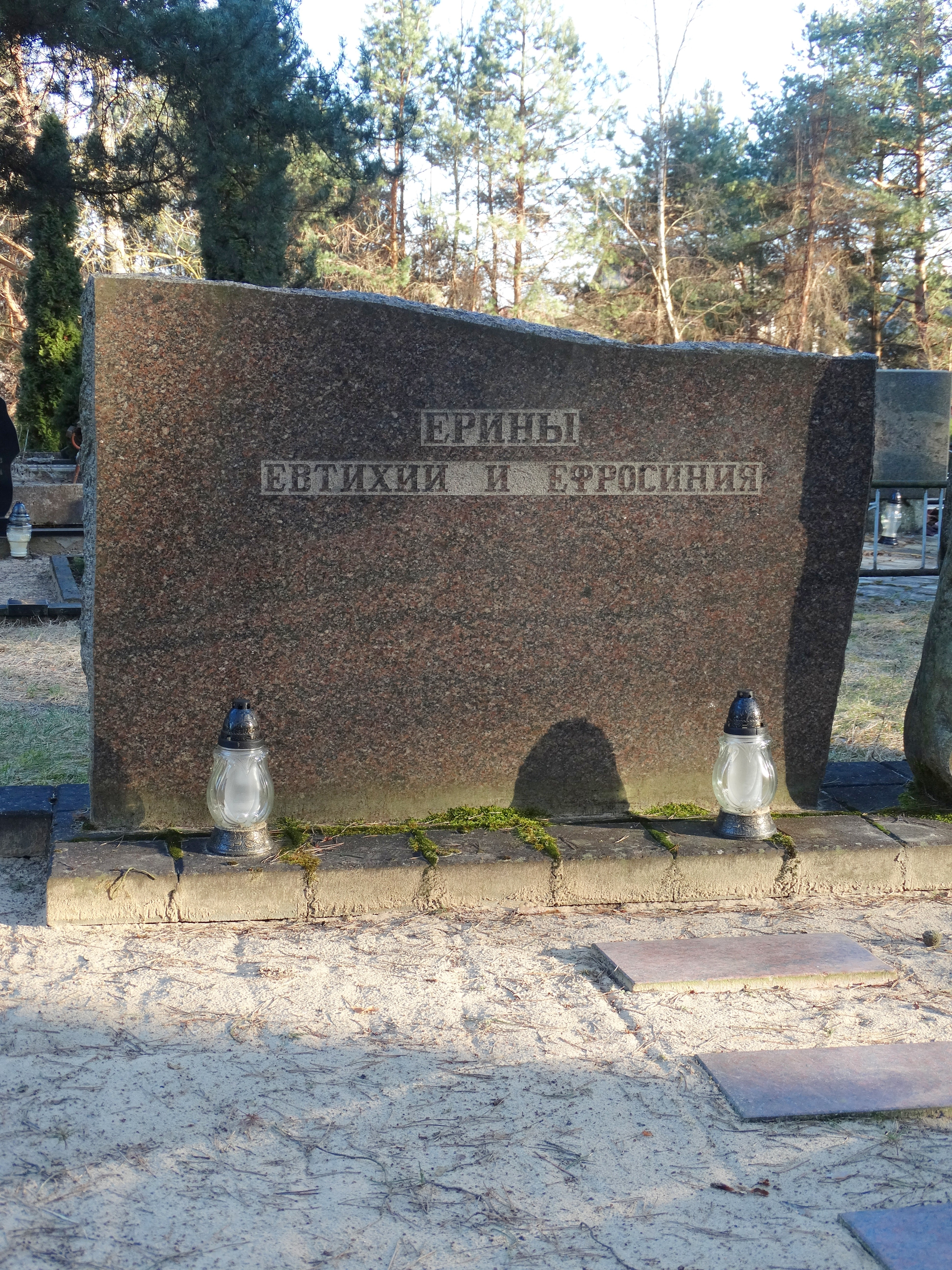 Tomb of Jevtichij Jerin (1878-1953), Kaunas district, Lithuania